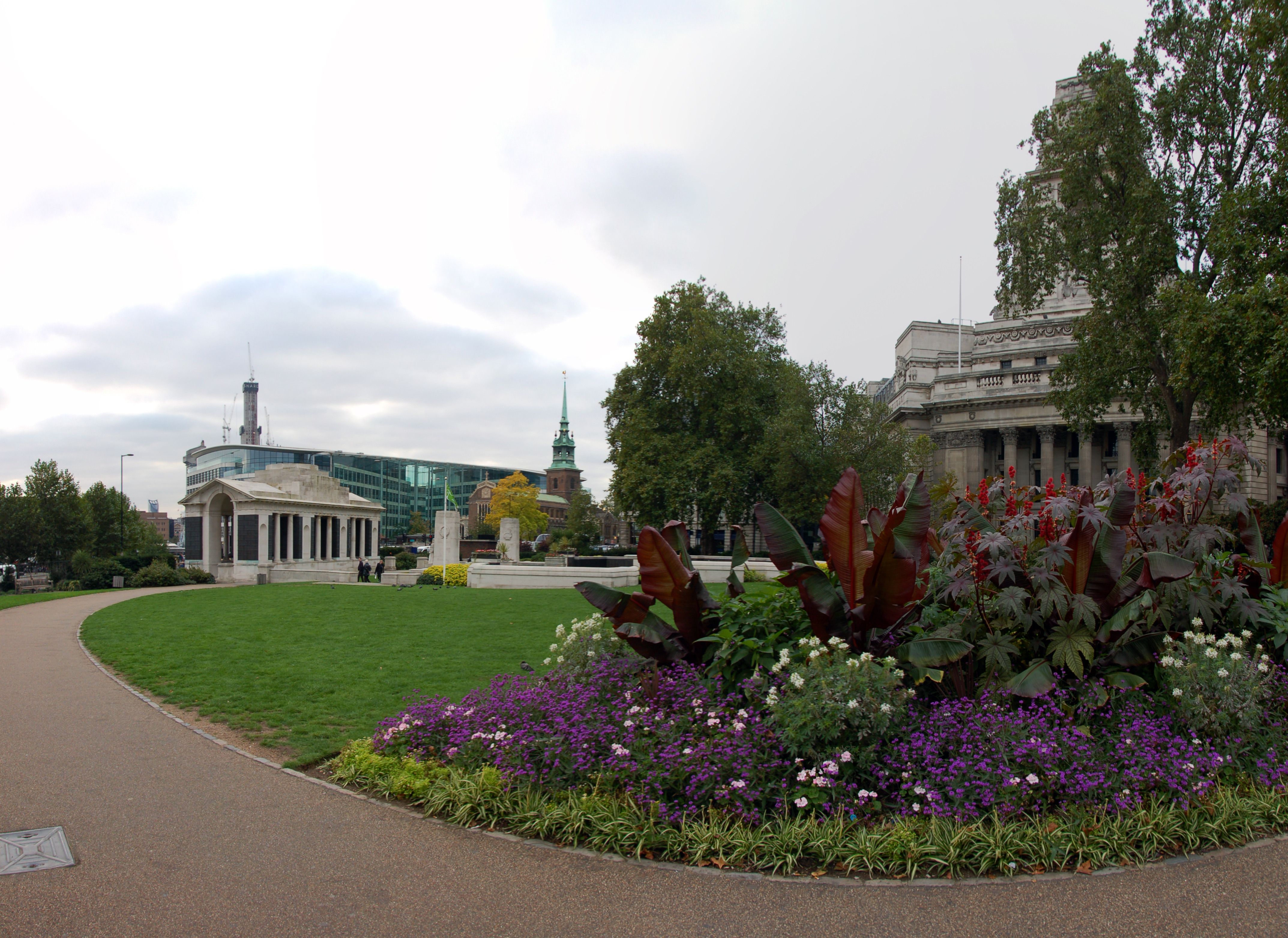 The Tower Hill Memorial in London, UK